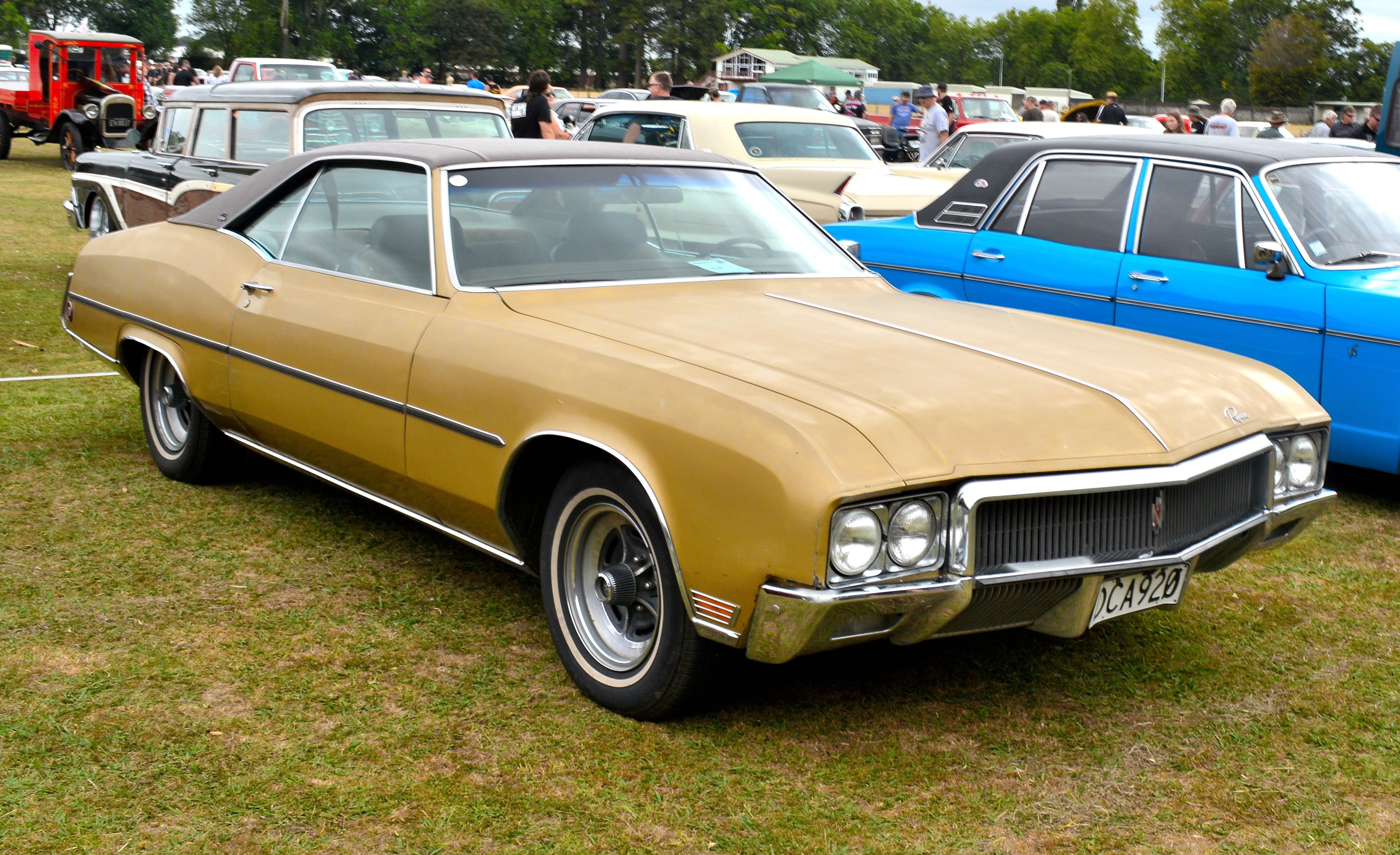 At Morrinsville 2017,New Zealand